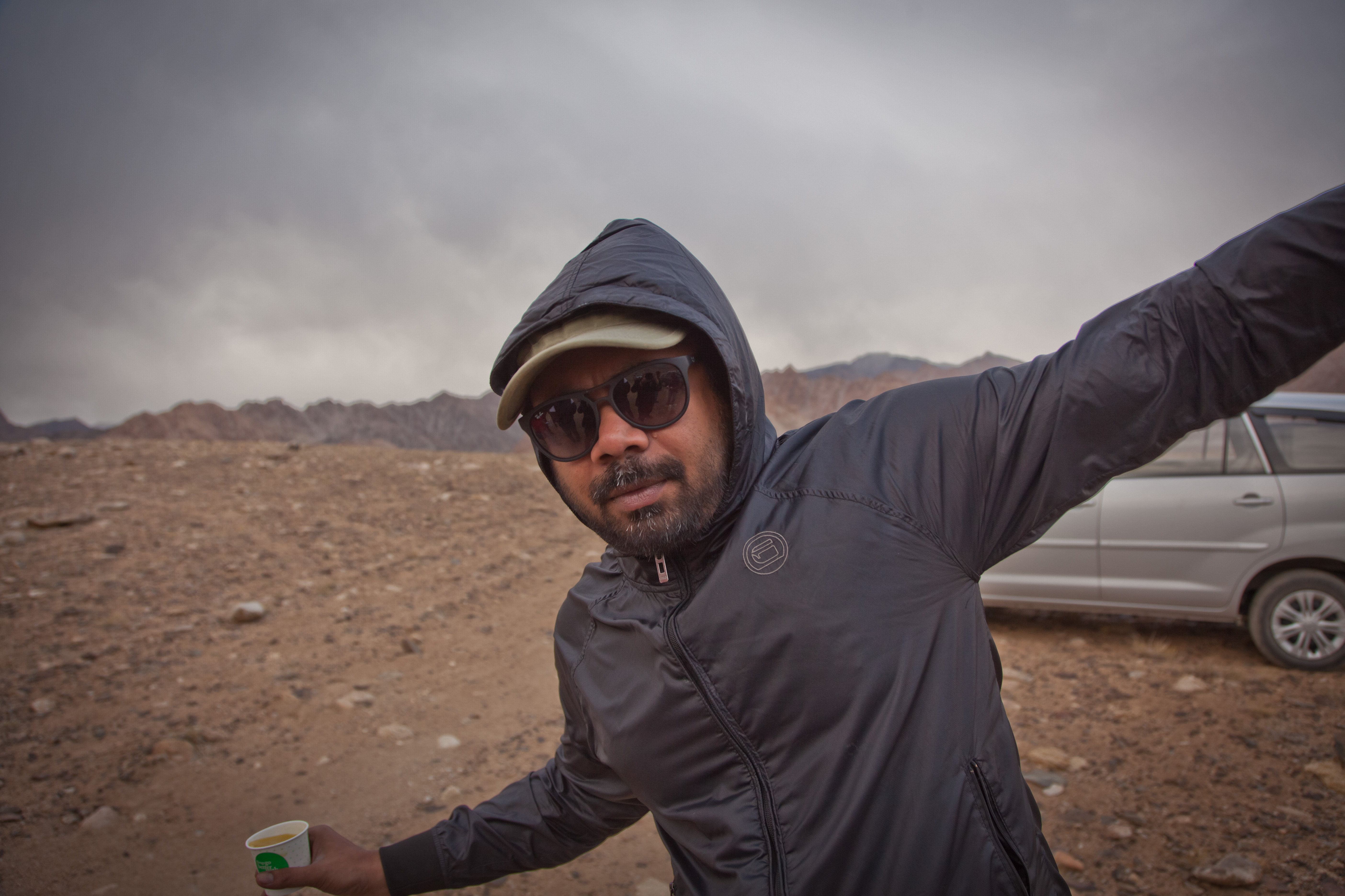 Original title: Director Prakash Varma - Helicam India 2012 Original description: Helicam action in India, september 2012 The image was uploaded by Villehoo in flickr.